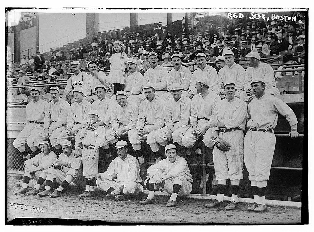 1912 Boston Red Sox baseball team photo, taken a few days before the beginning of the 1912 World Series.Back row, L-R: Joseph Quirk (trainer), Tris Speaker, unidentified girl, Smoky Joe Wood, Hick Cady, Pinch Thomas, Buck O'Brien, Hugh Bradley, Duffy LewisMiddle row, L-R: Harry Hooper, Bill Carrigan, Steve Yerkes, Olaf Henriksen, Clyde Engle, Les Nunamaker, Charley Hall, Larry Gardner, Ray Collins, Jake StahlFront row, L-R: Heinie Wagner, Hugh Bedient, mascot, Larry Pape, Marty Krug